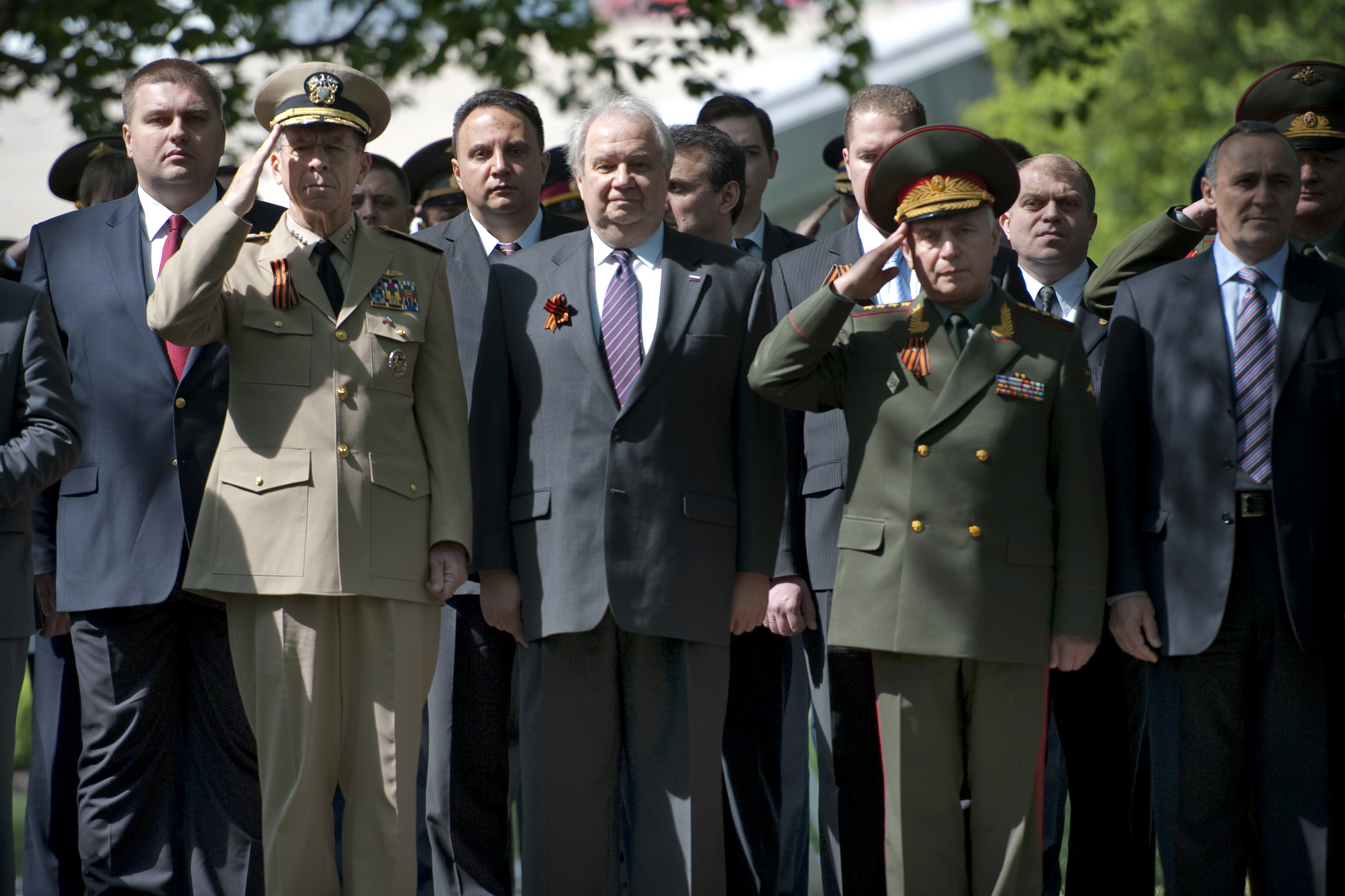 U.S. Navy Adm. Mike Mullen, chairman of the Joint Chiefs of Staff, Sergey Kislyak, Russian ambassador to the United States, and Russian Gen. Nikolay Makarov, chief of the General Staff of the Russian Federation, salute during the playing of the national anthem at Arlington National Cemetery, Va., April 23, 2010. The leaders gathered at a wreath memorial to commemorate the 65th anniversary of the link up of U.S. and Soviet forces during World War II at Elbe River in Germany, April 25, 1945.